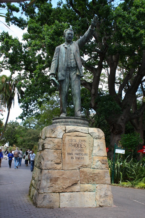 This media shows a South African Protected Site with SAHRA file reference 9/2/018/0149.